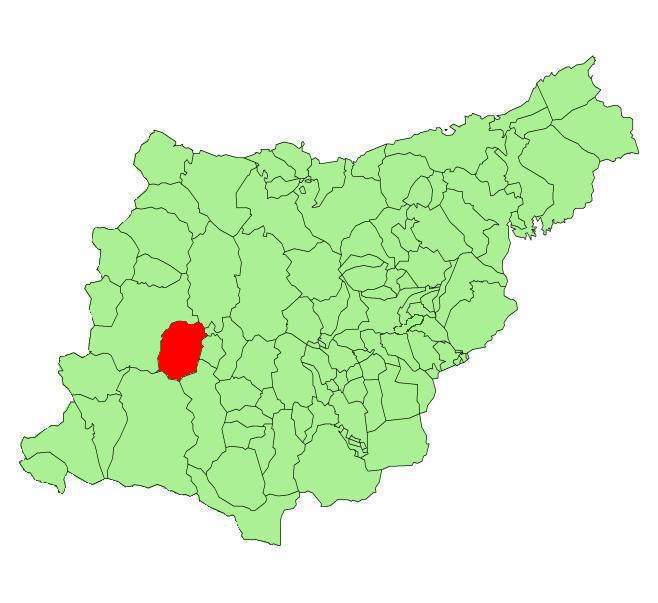 Antzuola municipality in the province of Guipuzcoa